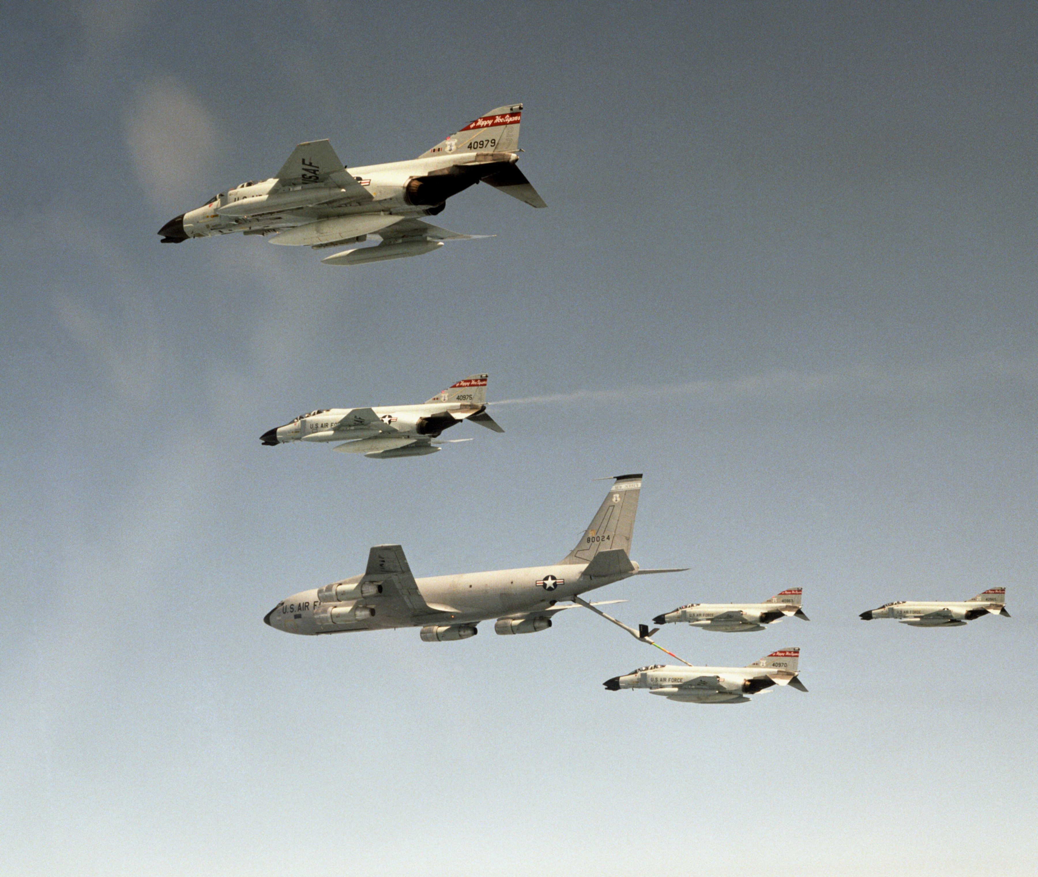 five U.S. Air Force McDonnell F-4D Phantom II aircraft assigned to the 178th Fighter Squadron, 119th Fighter Wing "The Happy Hooligans", North Dakota Air National Guard, conduct mid-air refueling from an U.S. Air Force Boeing KC-135E Stratotanker (s/n 58-0024) from the 150th Air Refueling Squadron, 108th Air Refueling Wing, New Jersey Air National Guard, in 1985.